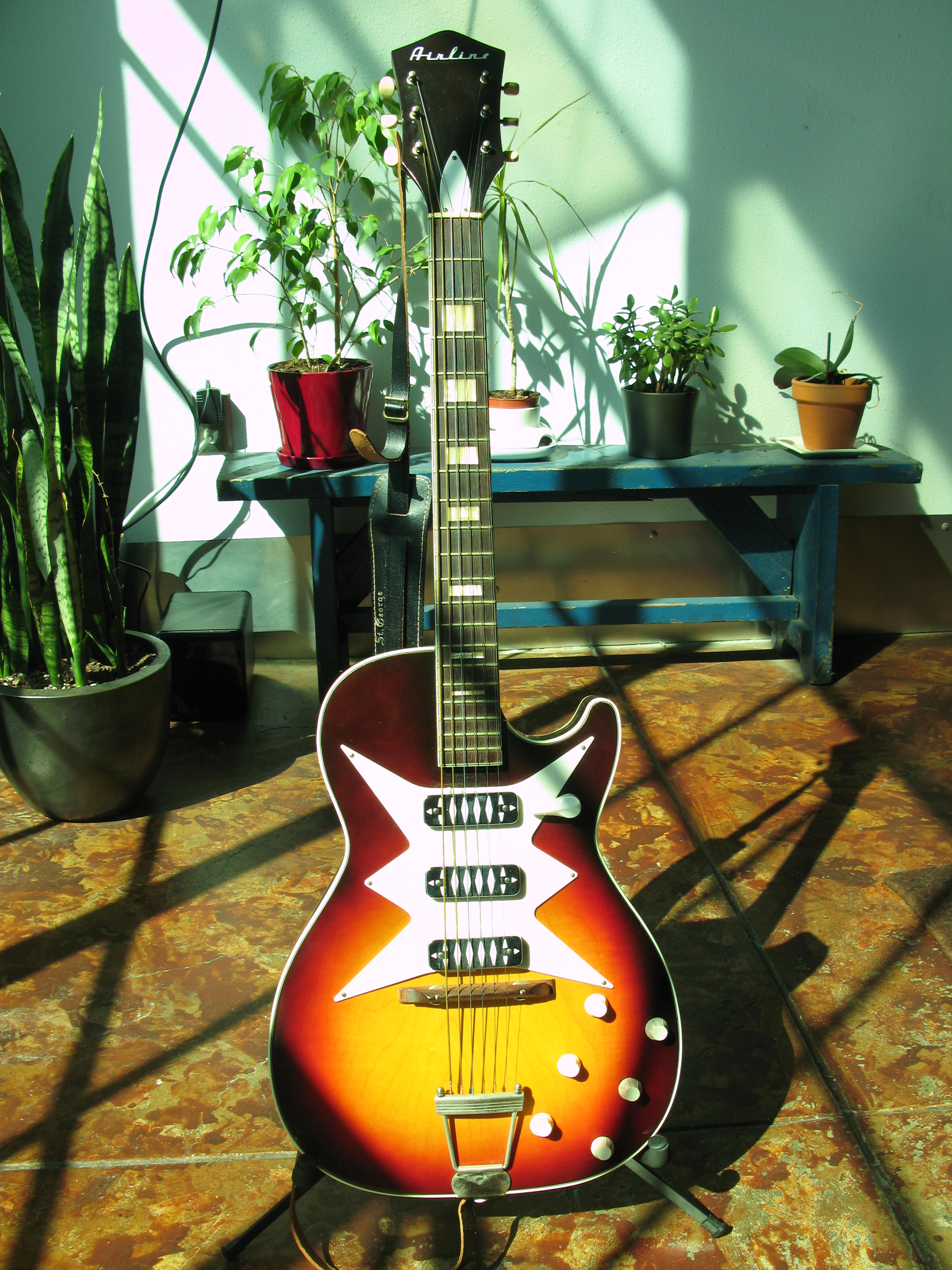 This Airline Stratotone loves me. Airline Roy Smeck Custom Stratotone similar to Harmony / Montgomery Wards Roy Smeck (Stratotone) 7208. (possibly variant of reissued Eastwood Airline Roy Smeck II) References 1964 AiRLiNE Roy Smeck "Custom" Stratotone Vintage Guitar. Main Street Vintage Company. Rare Airline Roy Smeck Stratotone 1960. . 1962 Harmony Roy Smeck Stratotone Model H7208. . "Manufactured by Harmony in Chicago, USA, in mid-1962. Similar to Harmony Stratotone H49 Jupiter, but different pickups and controls." Eastwood Airline RS-II (Roy Smeck II). Eastwood Guitars. Archived from the original on 2013-01-19. "The RS-II is reminiscent of the late 1950's Roy Smeck model. The unique hollow-body design without F-Holes combine with the Airline ARGYLE Single coil pickups to produce a unique tone reminiscent from many early electric guitars from the 50's and 60's. The RS-II is capable of producing clean or distorted tones without feedback."